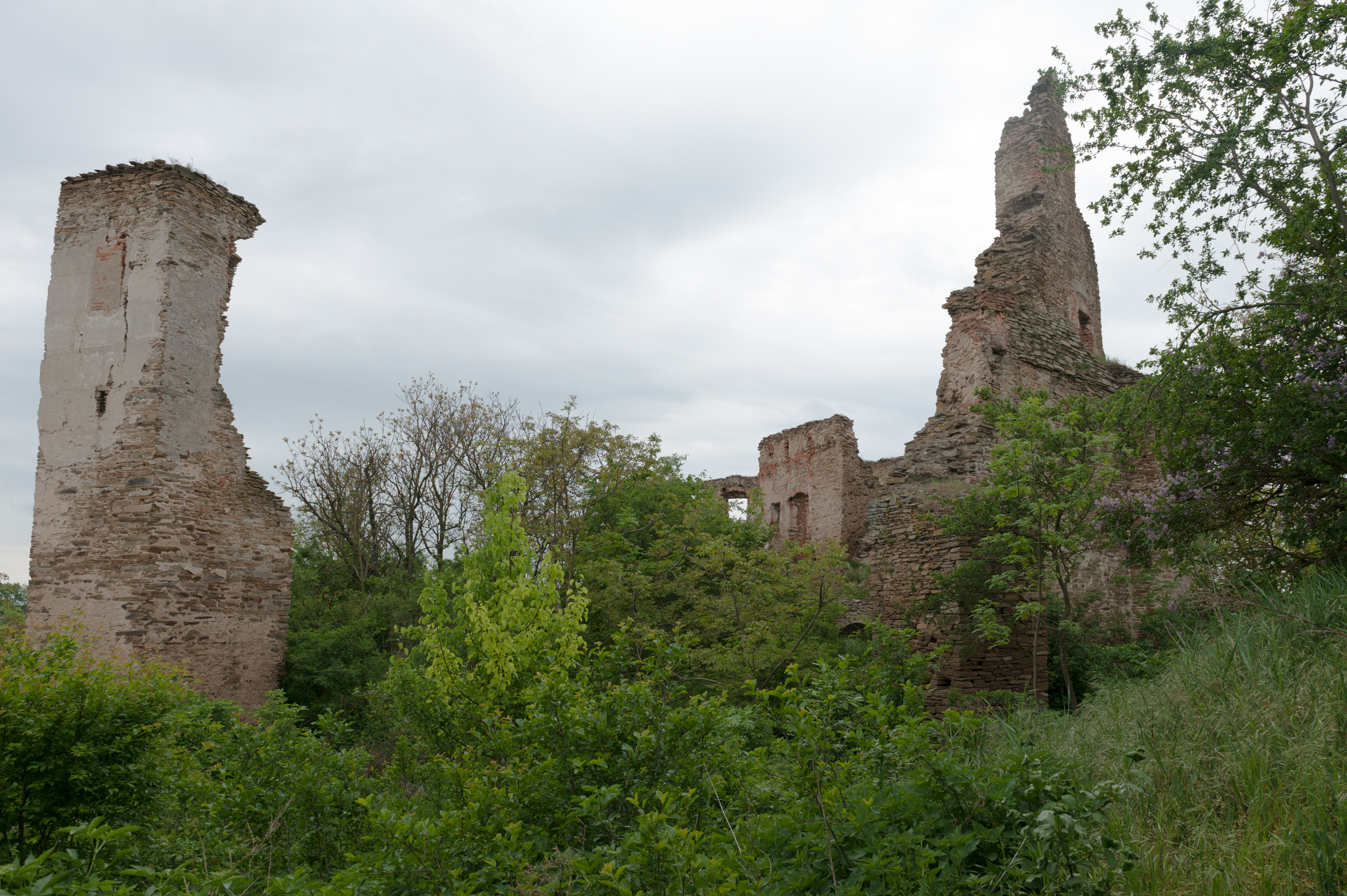 Wikitown Hustopeče: Žerotice